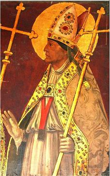 Saint Julian of Toledo, by Juan de Borgoña, Sala Capitular de la Catedral de Toledo